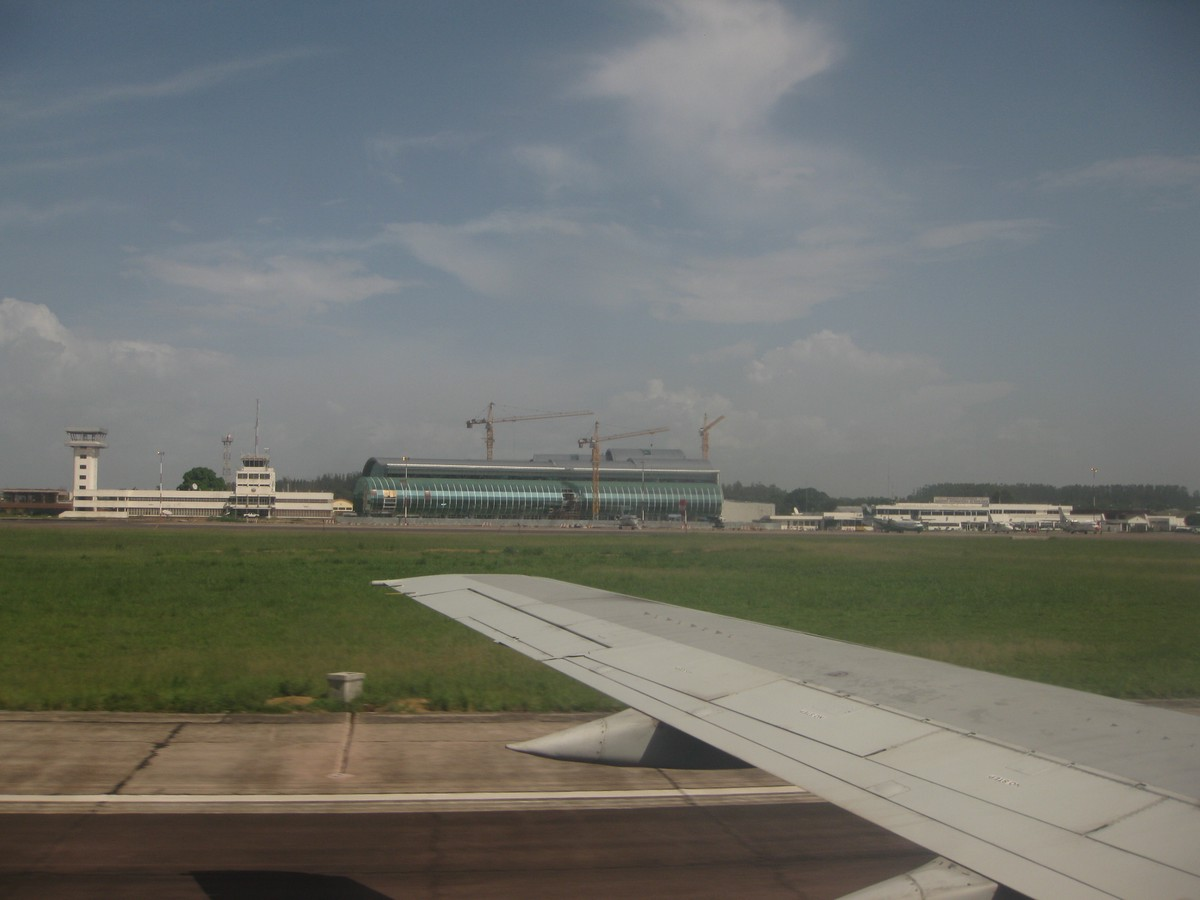 Terminal of Brazza Maya-Maya Int'l Airport. In the middle is the new terminal under construction, on the right there is the current one.